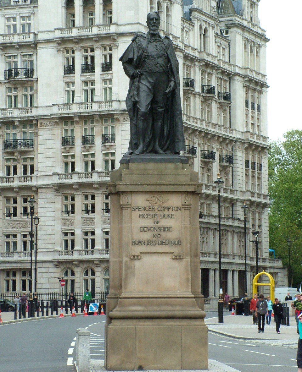 Statue of Spencer Compton Cavendish, the 8th Duke of Devenshire, on Whitehall in London, UK.